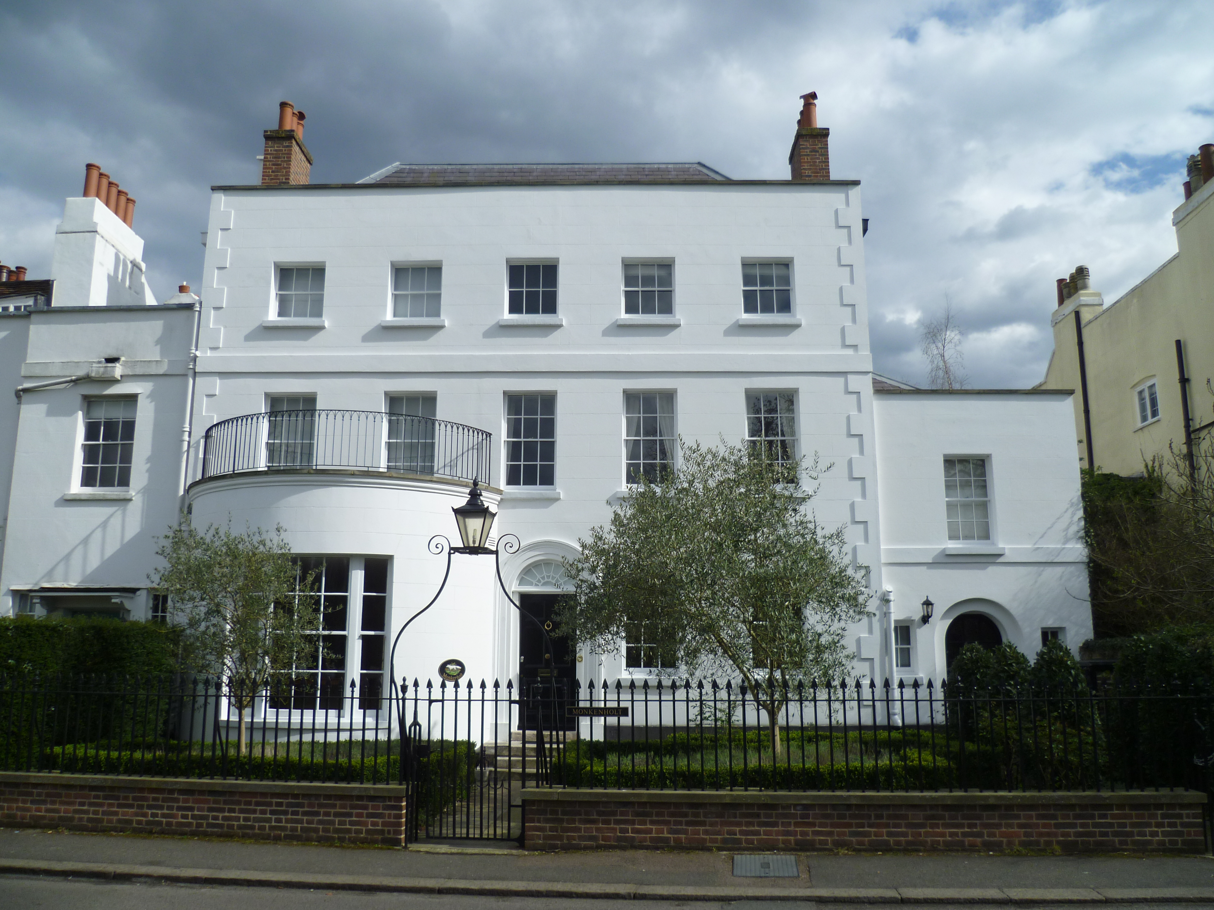 Hadley